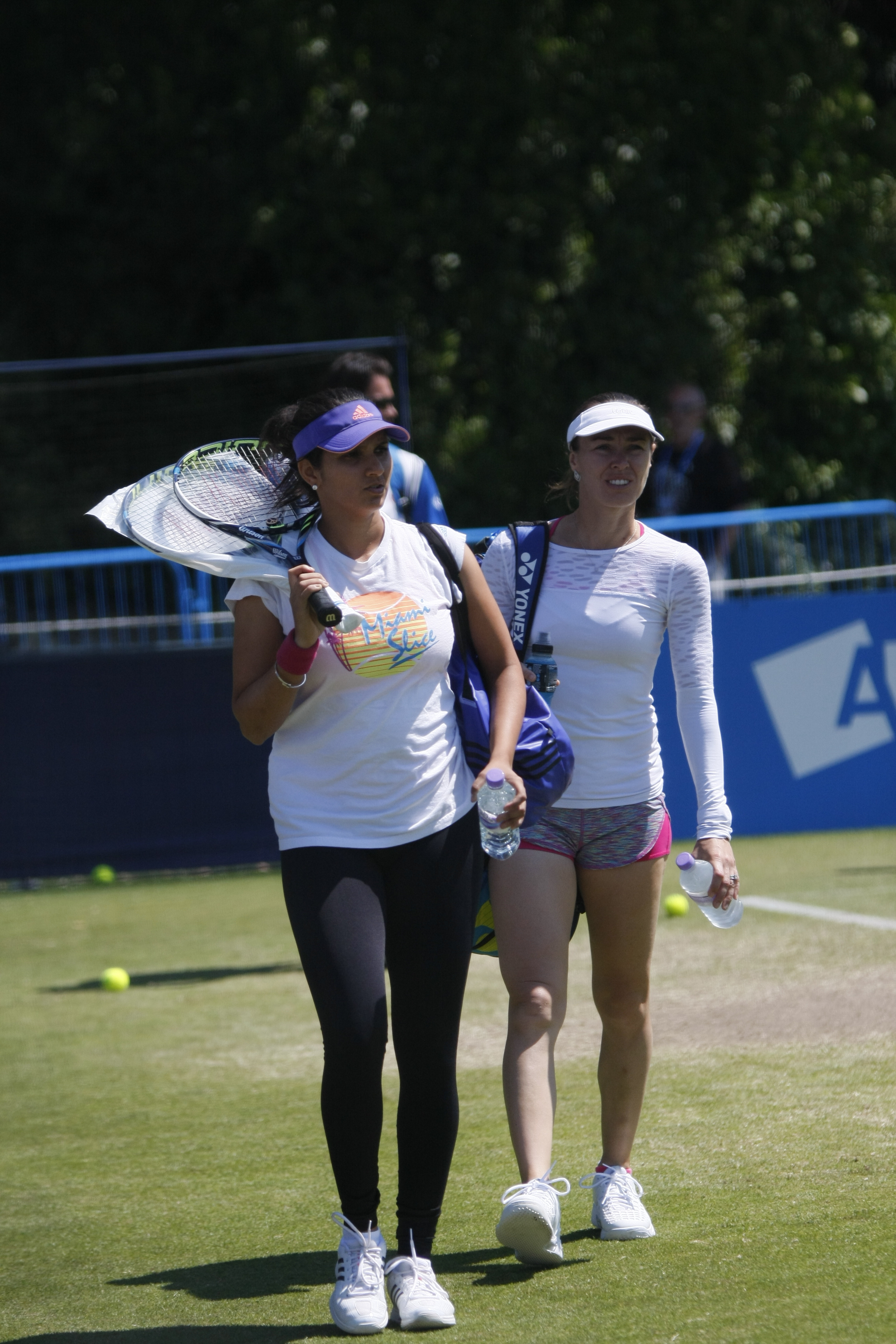 Aegon International Tennis, Devonshire Park, Eastbourne June 2015